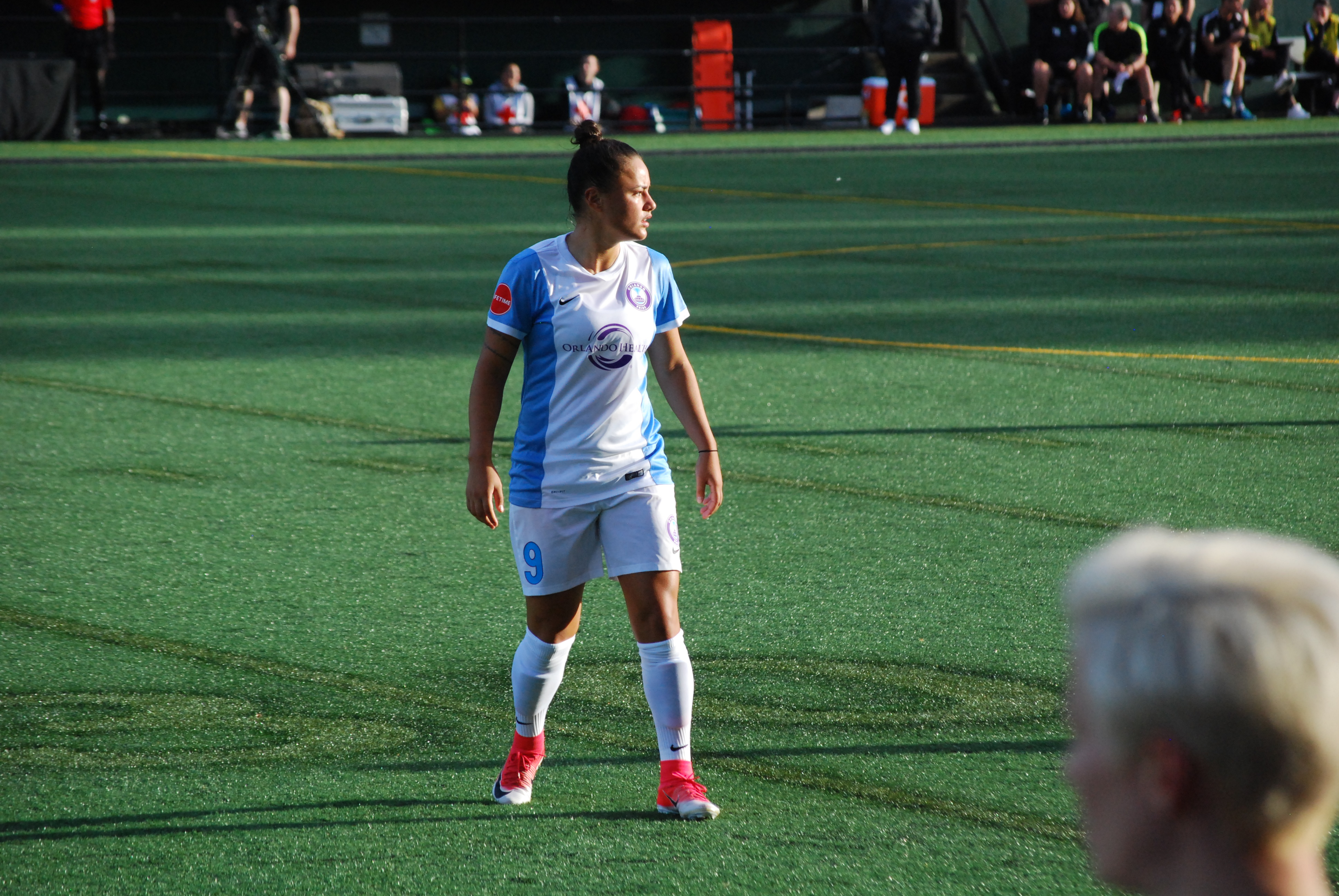 Seattle Reign vs Orlando Pride, May 21, 2017